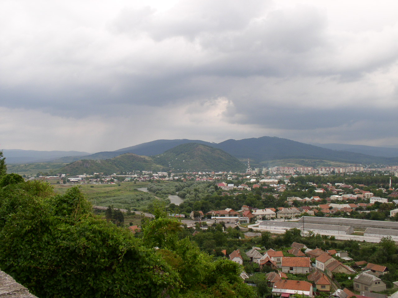 Panorama. Mukacheve, Ukraine.